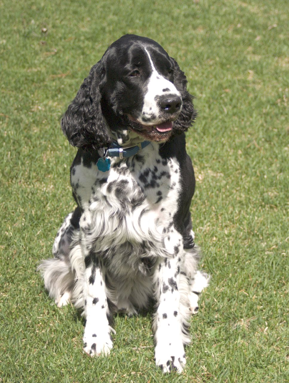 A black English Springer Spaniel named Oliver.